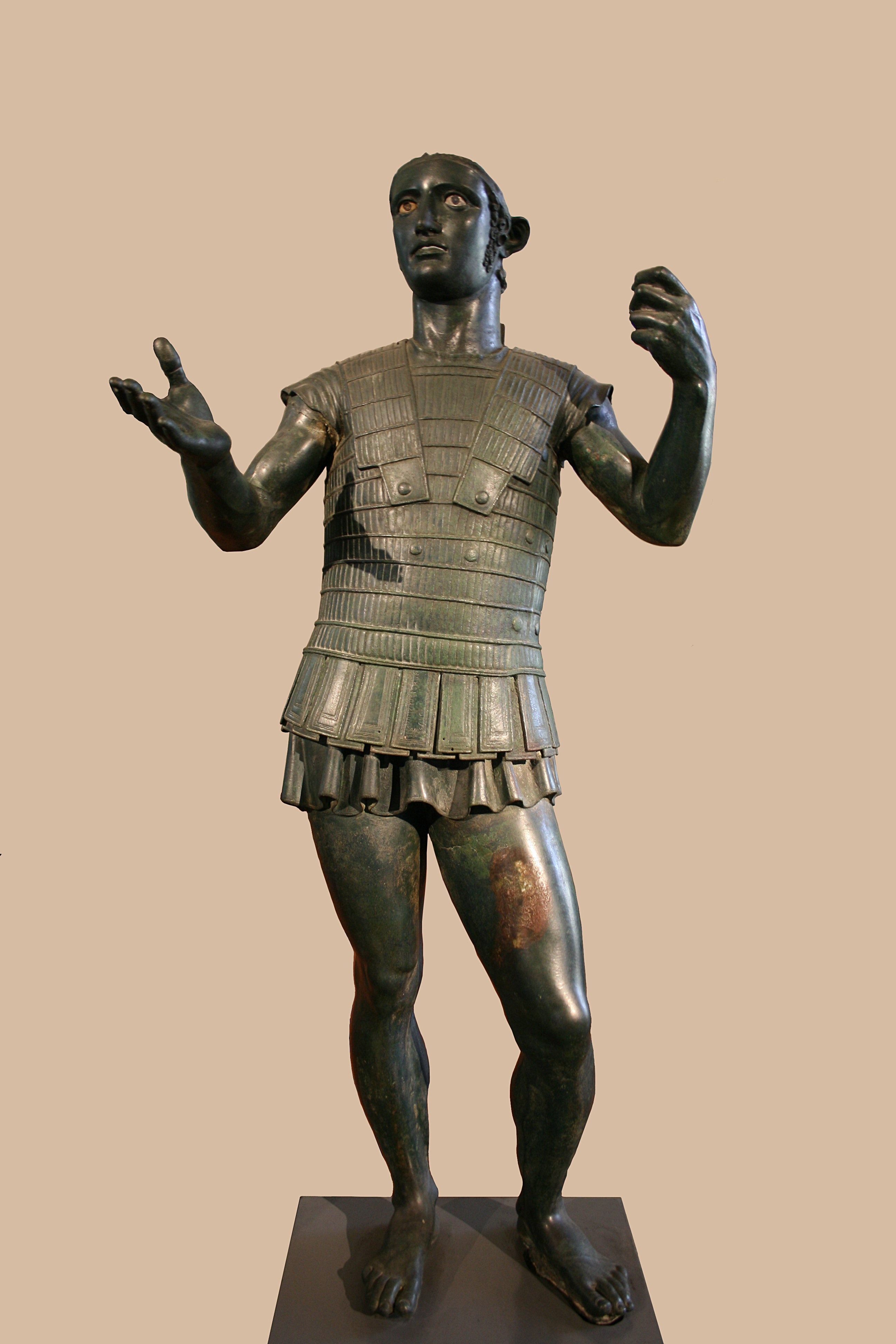 Etruscan bronze statue of a warrior, nearly life-size, product of a workshop in Orvieto. The warrior wears a cuirass and once held in his right hand a patera and a spear in the left. The inscription in etruscan letters states that Ahal Trutitis dedicated the statue.